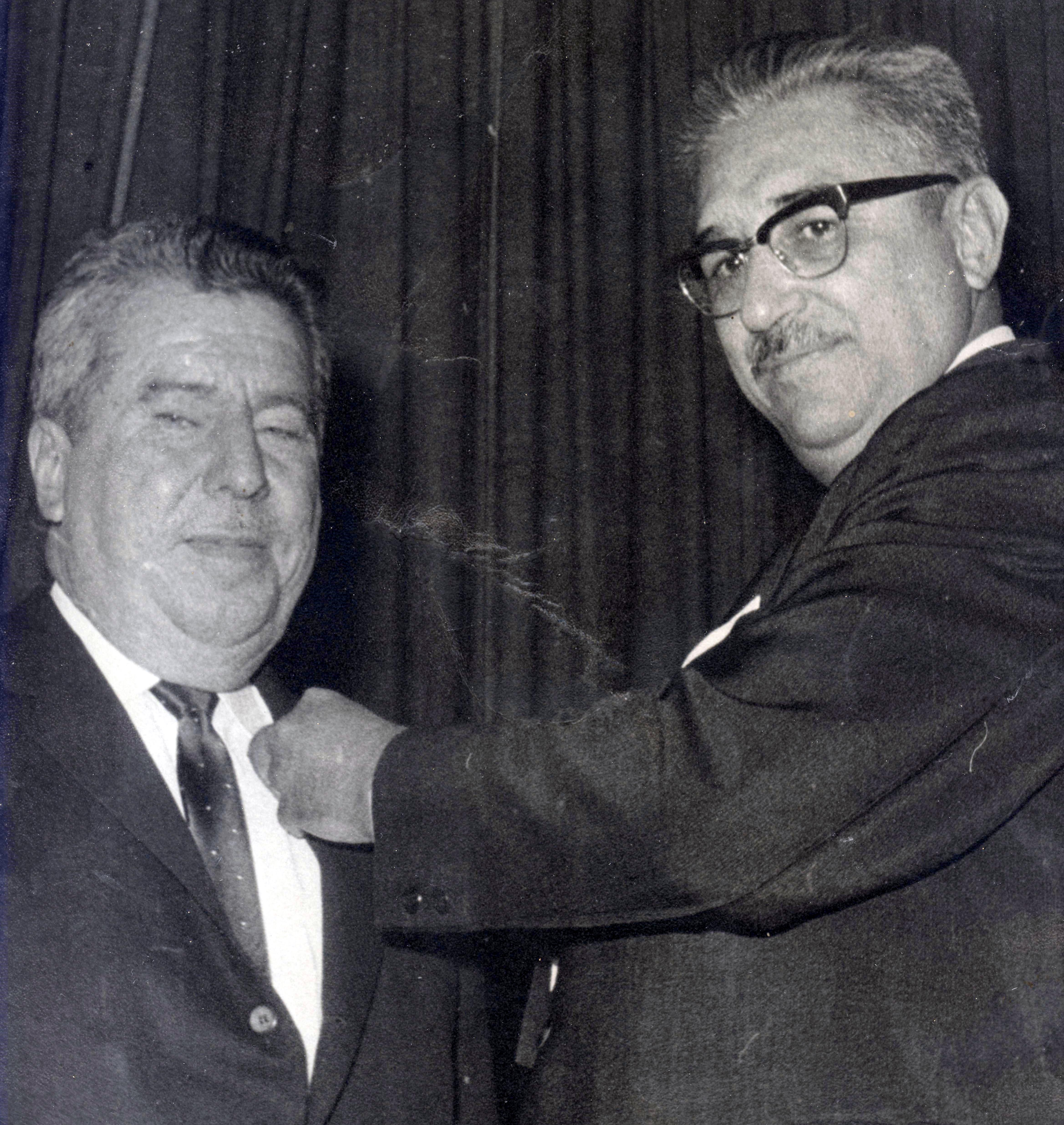 Prize winning ceremoy of Mr Rubio Mañé